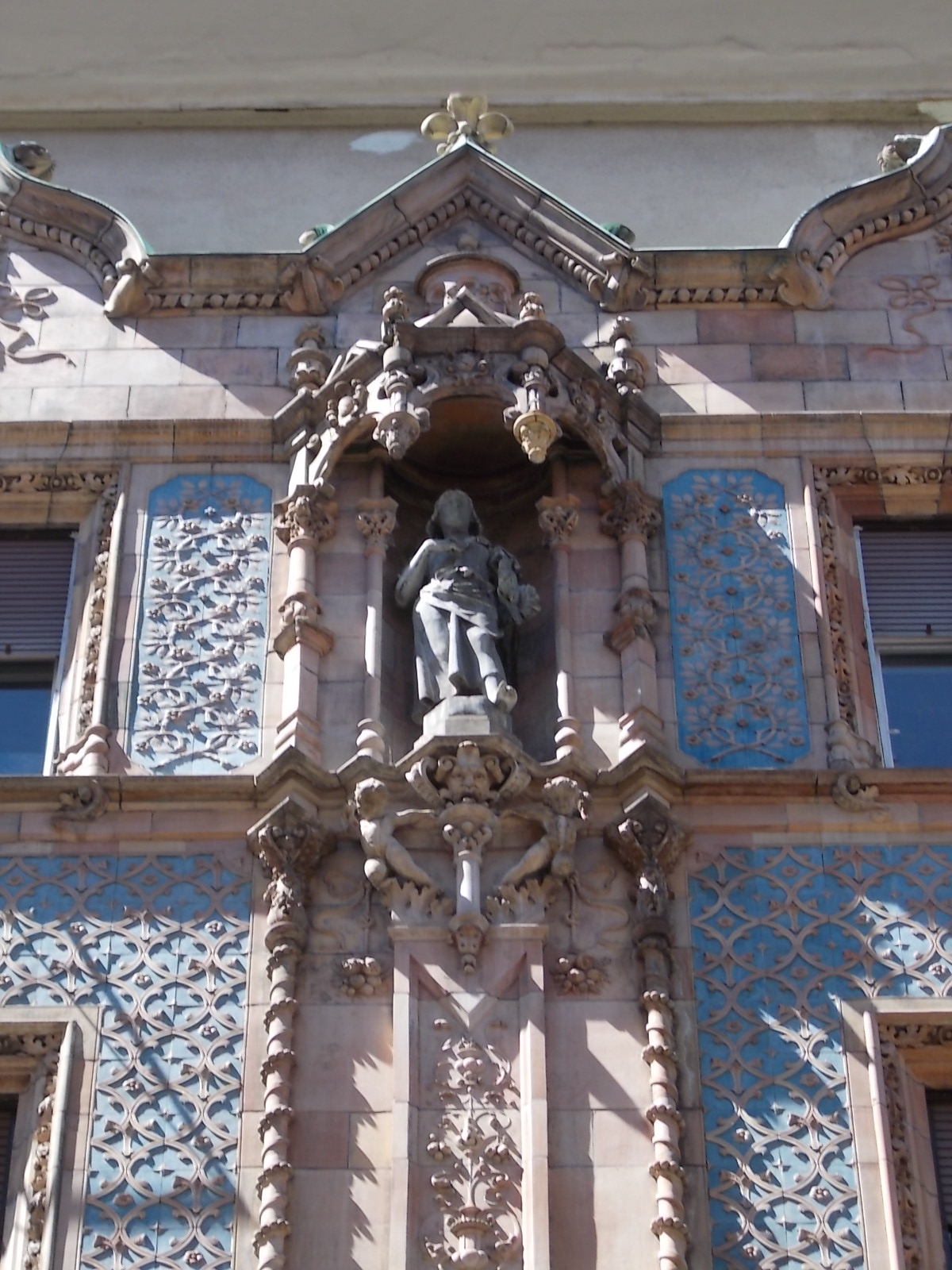 Thonet residential and business house built according to plans of Ödön Lechner in 1889. - 11 A Váci Street, Inner City neighborhood, 5th district of Budapest. )